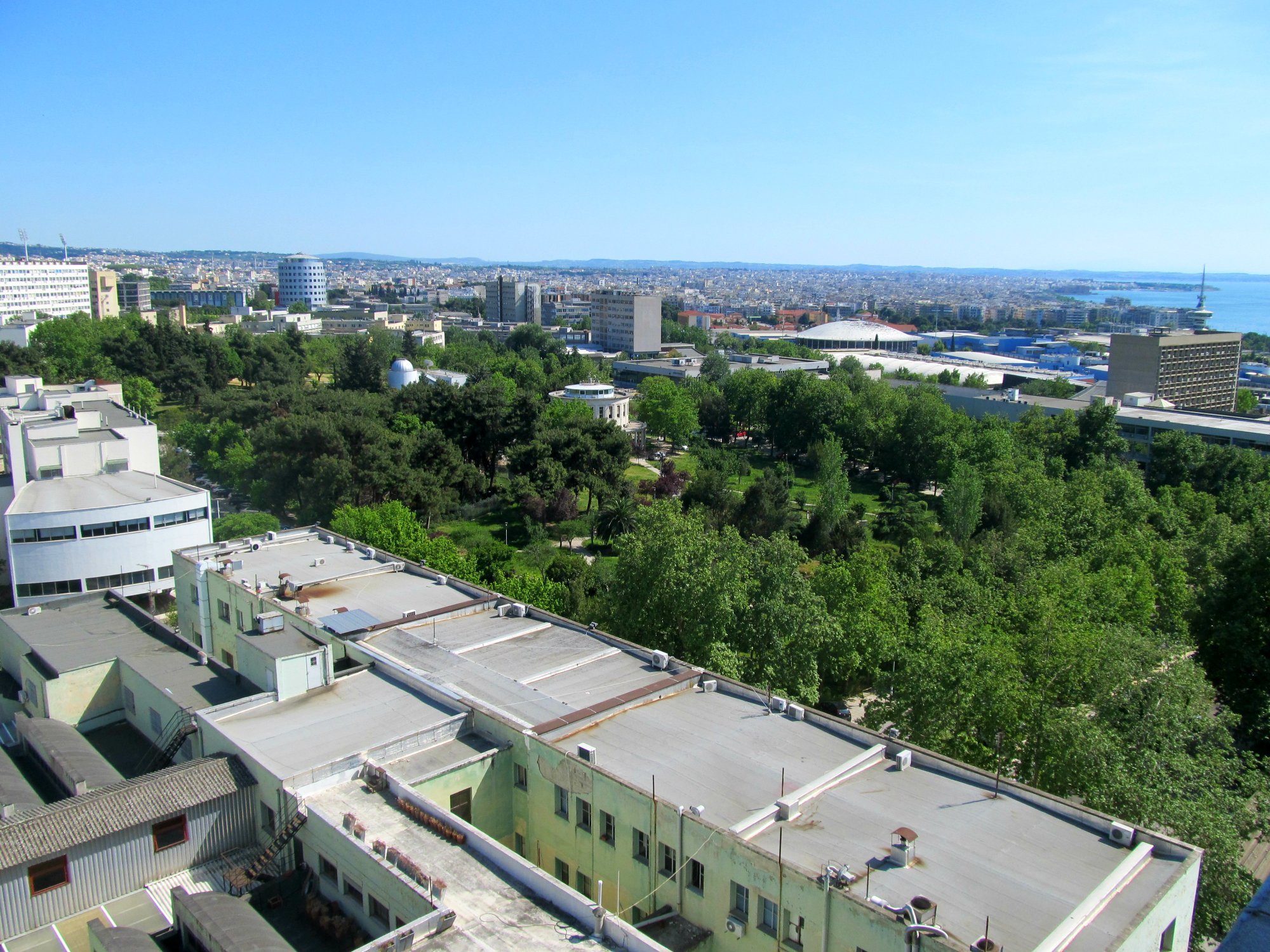 View from the Biology building rooftop